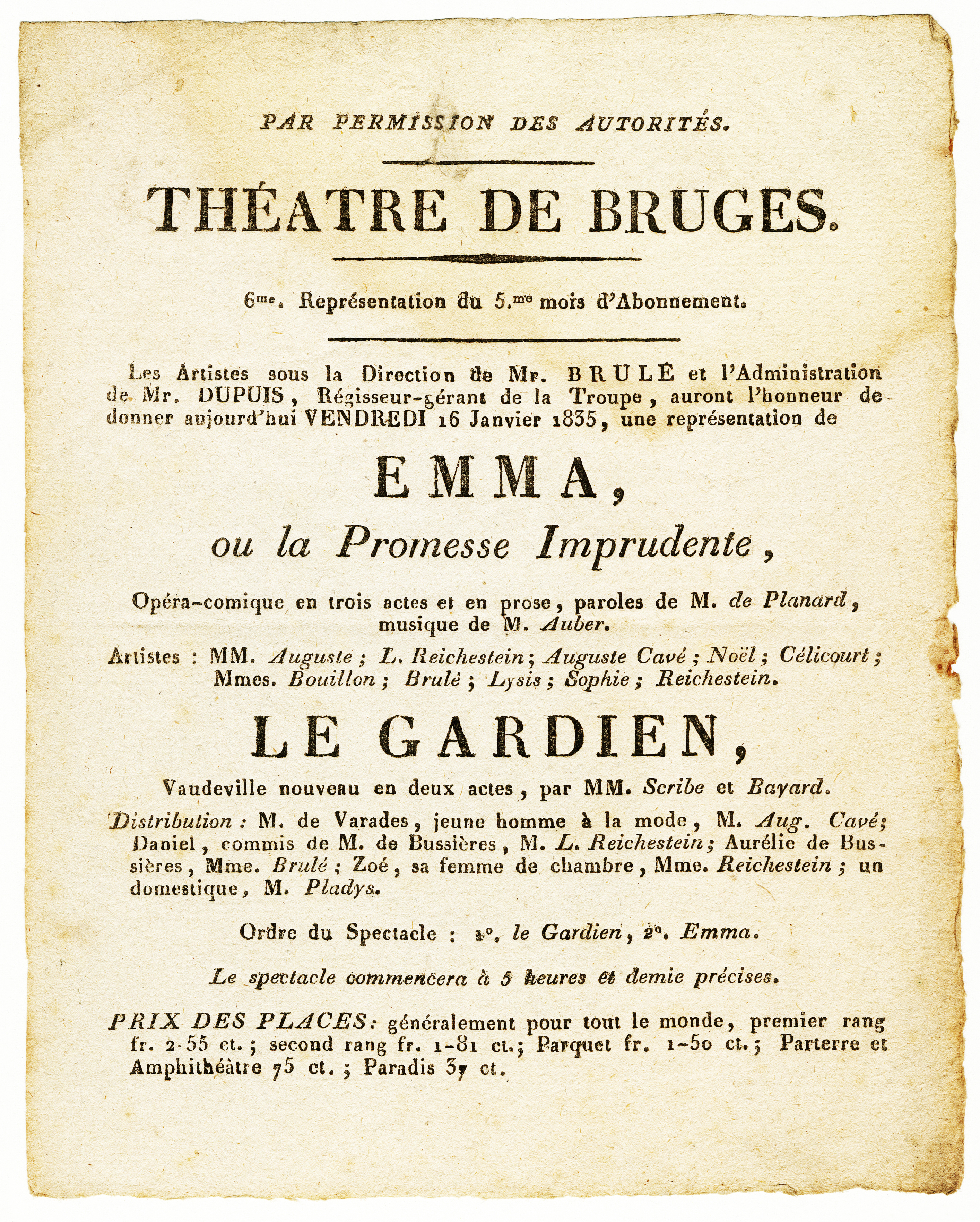 Flyer for the performance of the opera Emma by Daniel-François-Esprit Auber and of the vaudeville Le Gardien by Eugène Scribe and Jean-François-Alfred Bayard in the theater of Bruges (Belgium) on Friday January 16th, 1835